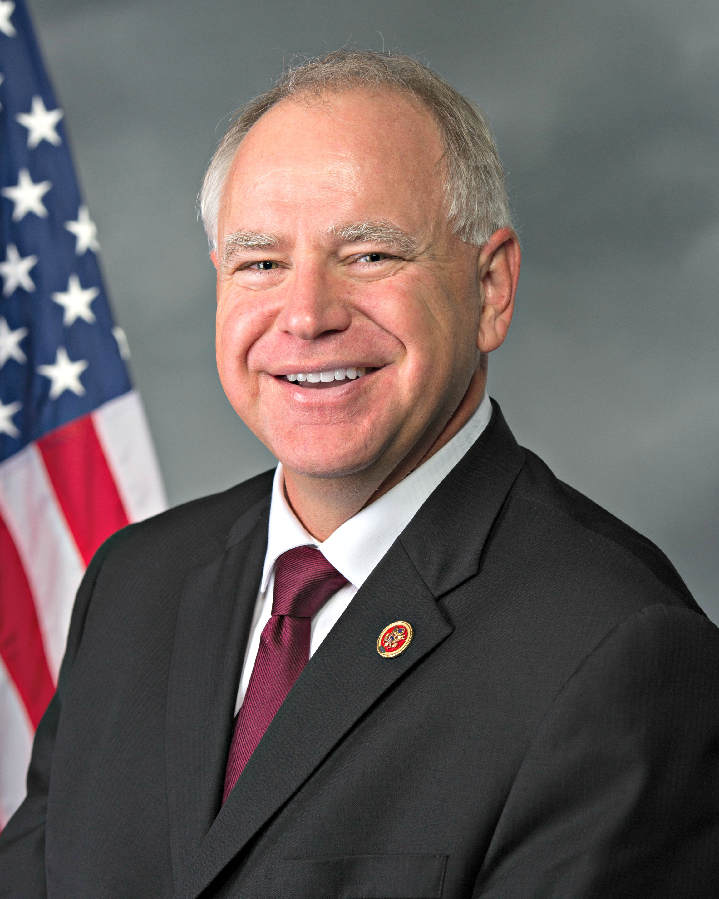 Tim Walz, member of the United States House of Representatives.